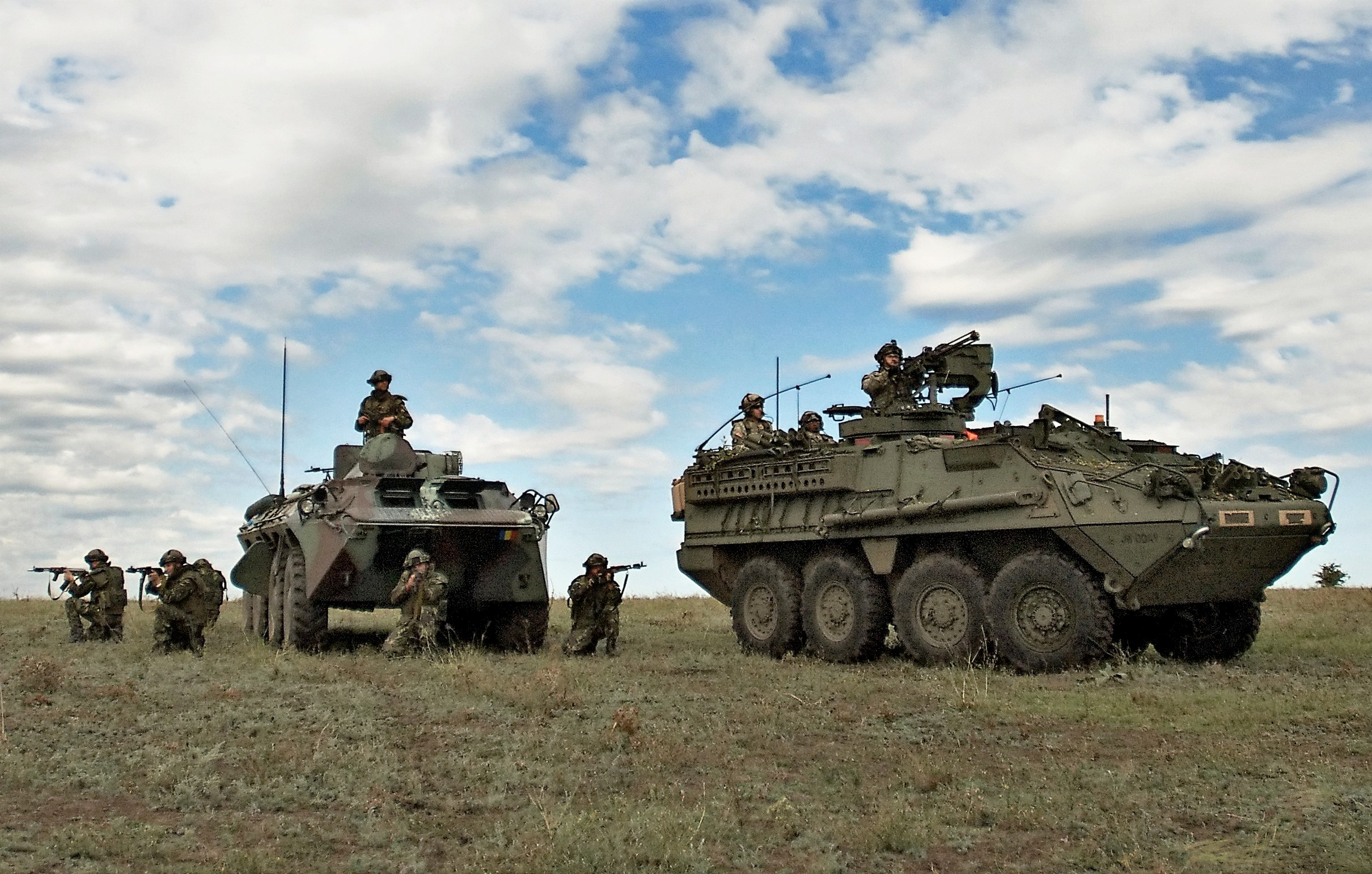 BABADAG TRAINING AREA, Romania - U.S. Soldiers of the 2nd Stryker Cavalry Regiment and Romanian forces of the 33rd Mountain Troop Battalion, Posada train together during the 2009 JTF-East rotation at the Babadag Training Area, Romania.